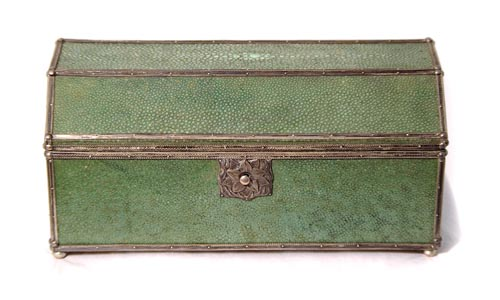 Rectangular box of cedarwood covered with shagreen, stained green, with moulded lid and silver mouldings of four small ball feet, rope-twist beaded edging and a push-button catch chased with a flower motif.